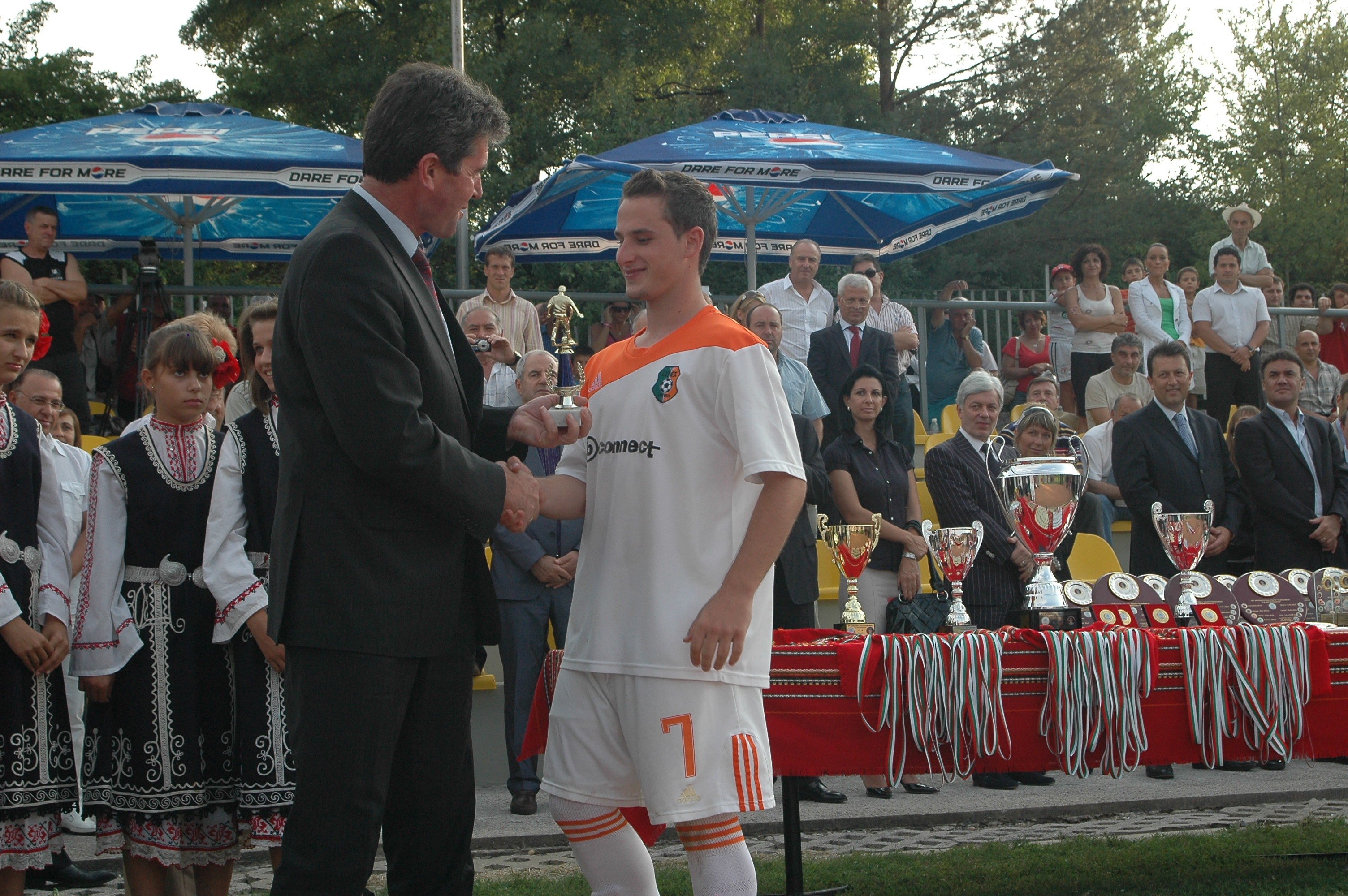 Diego Ferares